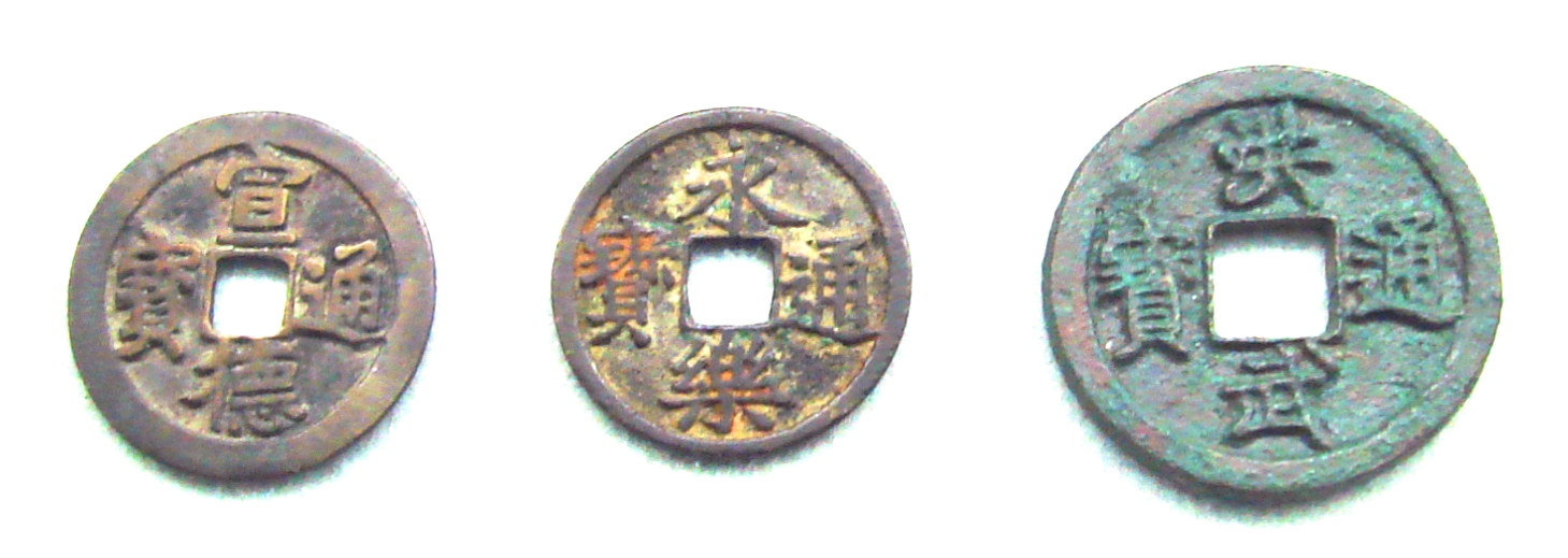 Ming_coinage_14th_17th_century.